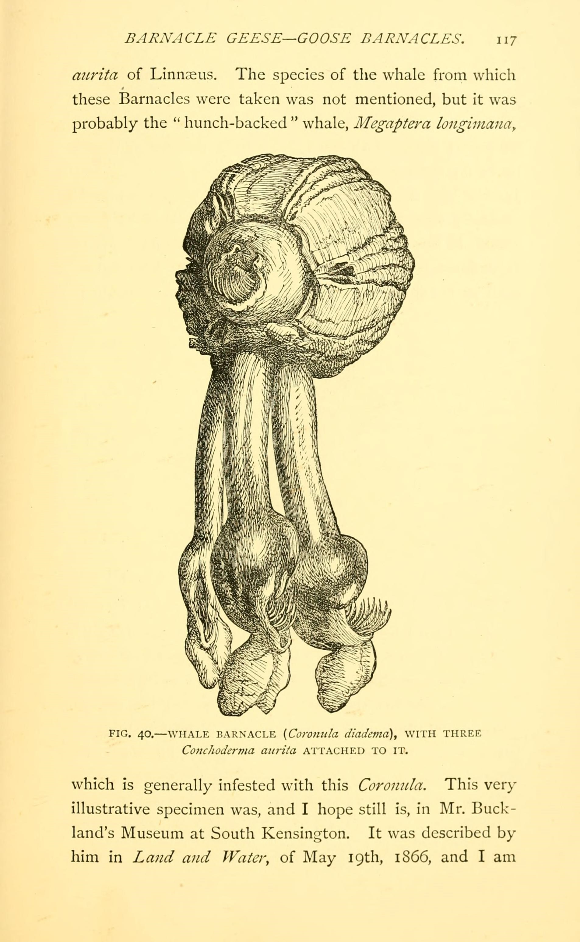 BARNACLE GEESE— GOOSE BARNACLES. 117 aurita of Linnaeus. The species of the whale from which these Barnacles were taken was not mentioned, but it was probably the " hunch-backed " whale, Megaptera longimana. FIG, 40. — WHALE BARNACLE (Corouiila diadcma), WITH THREE Co7ichoderma aiiHta attached to it. which is generally infested with this Coroniila. This very illustrative specimen was, and I hope still is, in Mr. Buck- land's Museum at South Kensington. It was described by him in Land and Water, of May 19th, 1866, and I am